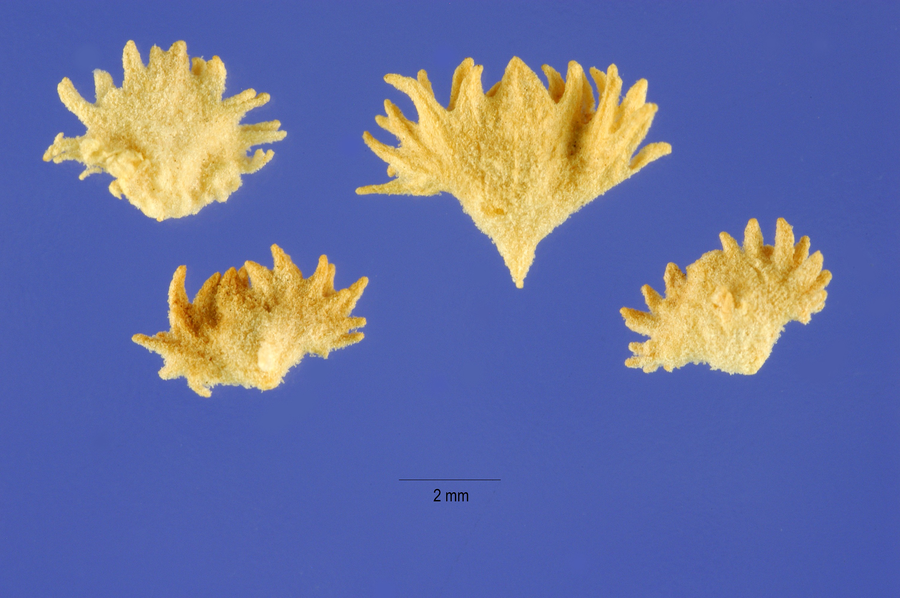 seeds of Atriplex polycarpa from Steve Hurst. Provided by ARS Systematic Botany and Mycology Laboratory. United States, AZ, Tucson.